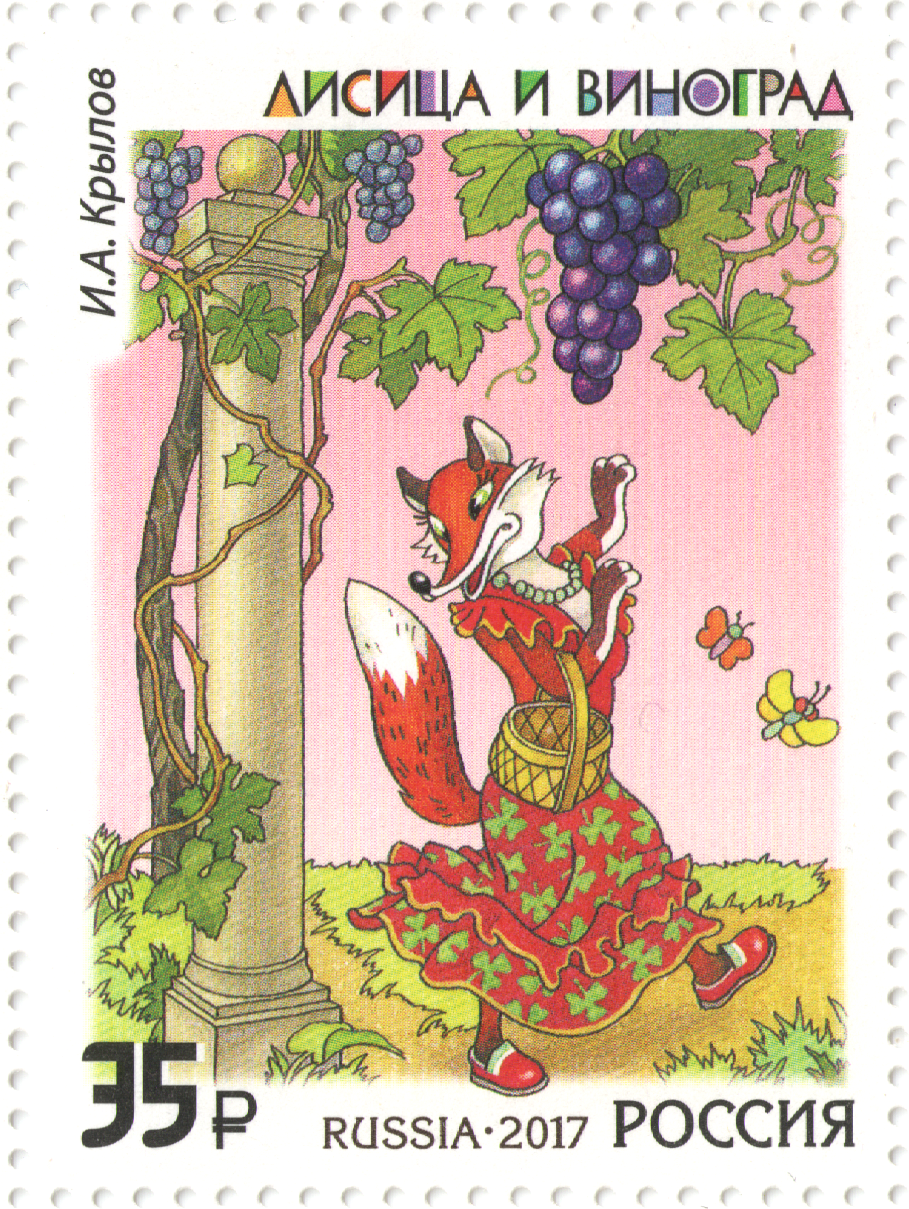 Russian postage stamp depicting illustration of Russian fable. Price is 35 rubles.